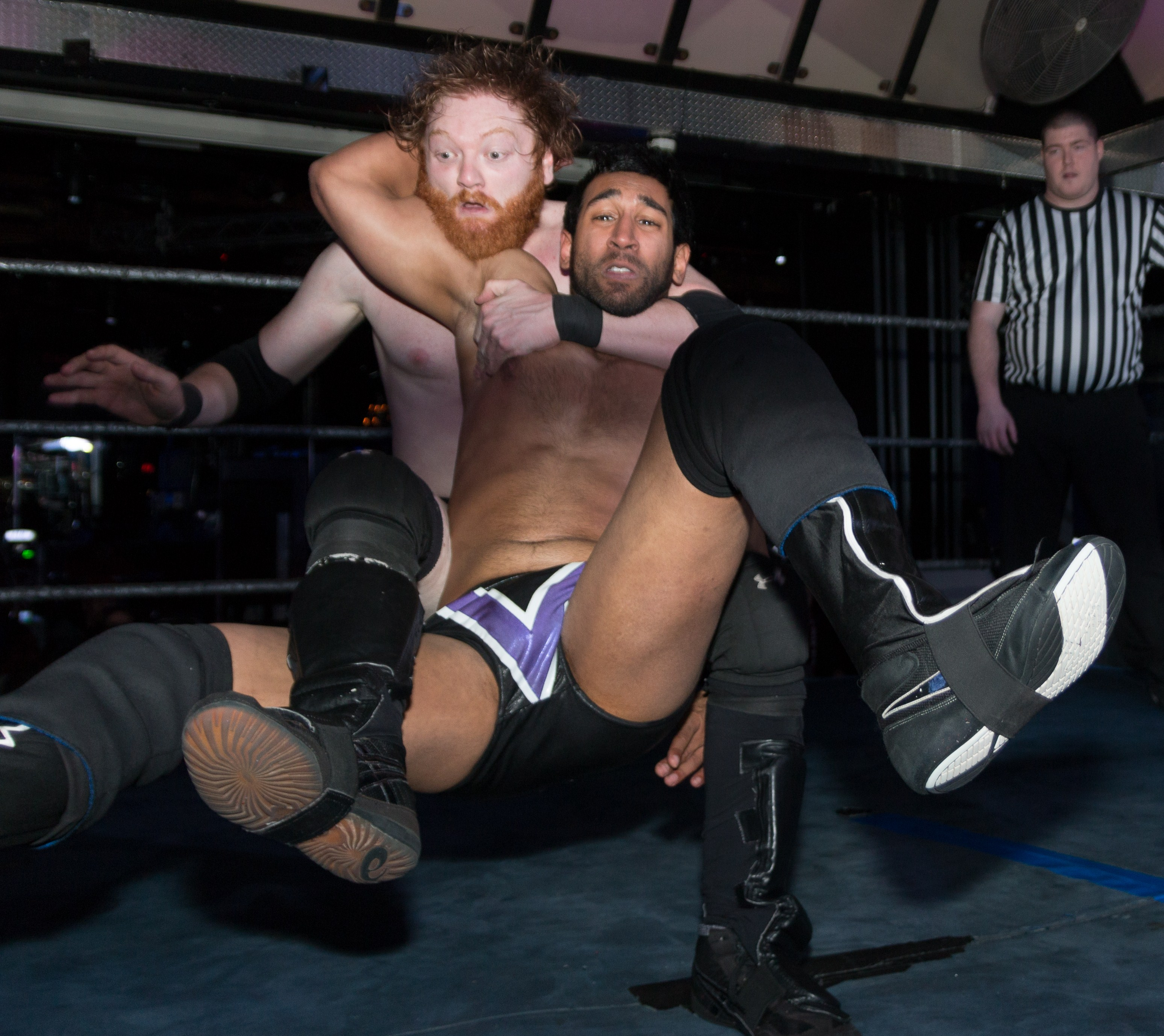 Wrestler Alex Vega (front) delivering a stunner to Josh Rogen